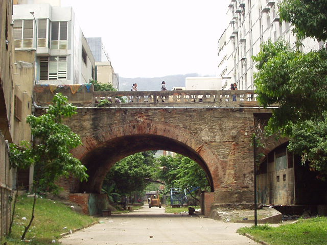 Anauco Bridge. Libertador Municipality, Capital District (Caracas), Venezuela. An old bridge over Anauco River, which runs undergroud here.